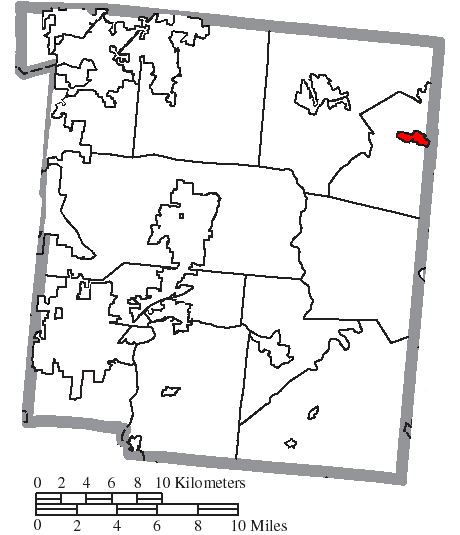 Map of the municipal and township boundaries of Warren County, Ohio, United States, as of the 2000 census, with the location of the village of Harveysburg highlighted. Township borders are shown only in unincorporated areas in order to differentiate incorporated and unincorporated areas more clearly.